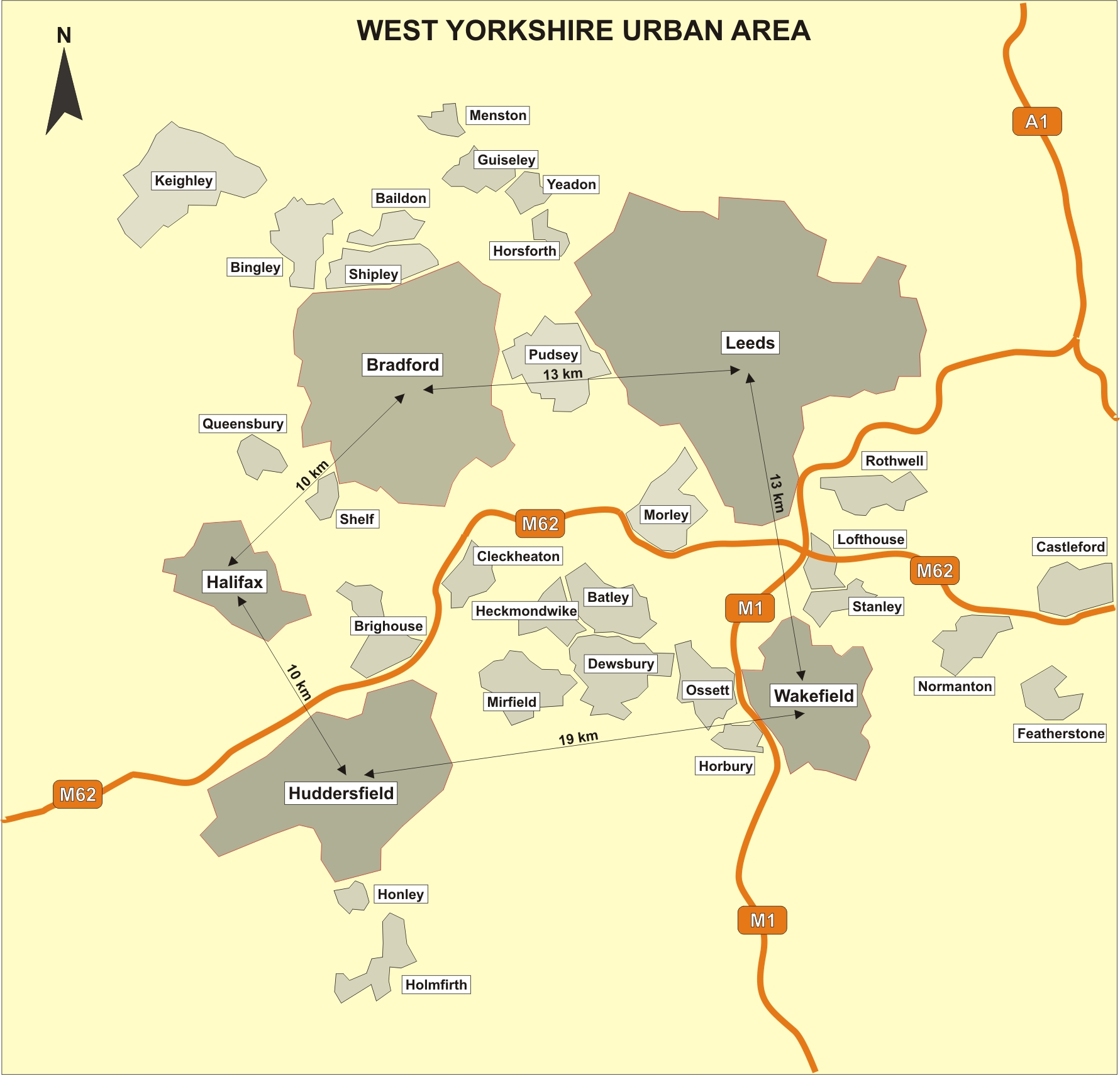 West Yorkshire Urban Area map.